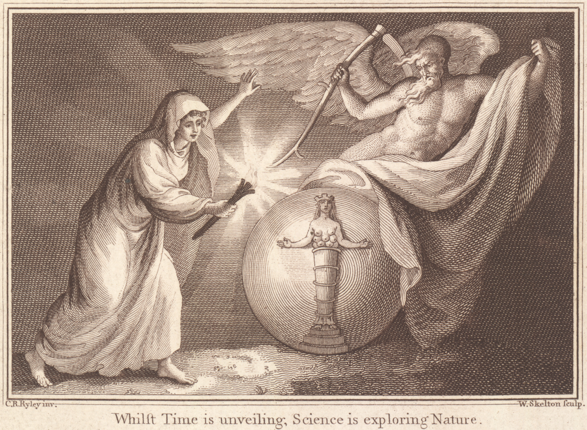 Cropped form of File:Whilst time is unveiling, Science is exploring Nature.jpg. Illustration from a ticket for the Leverian Museum in London, England. Shelfmark: Tickets 11 (10a)